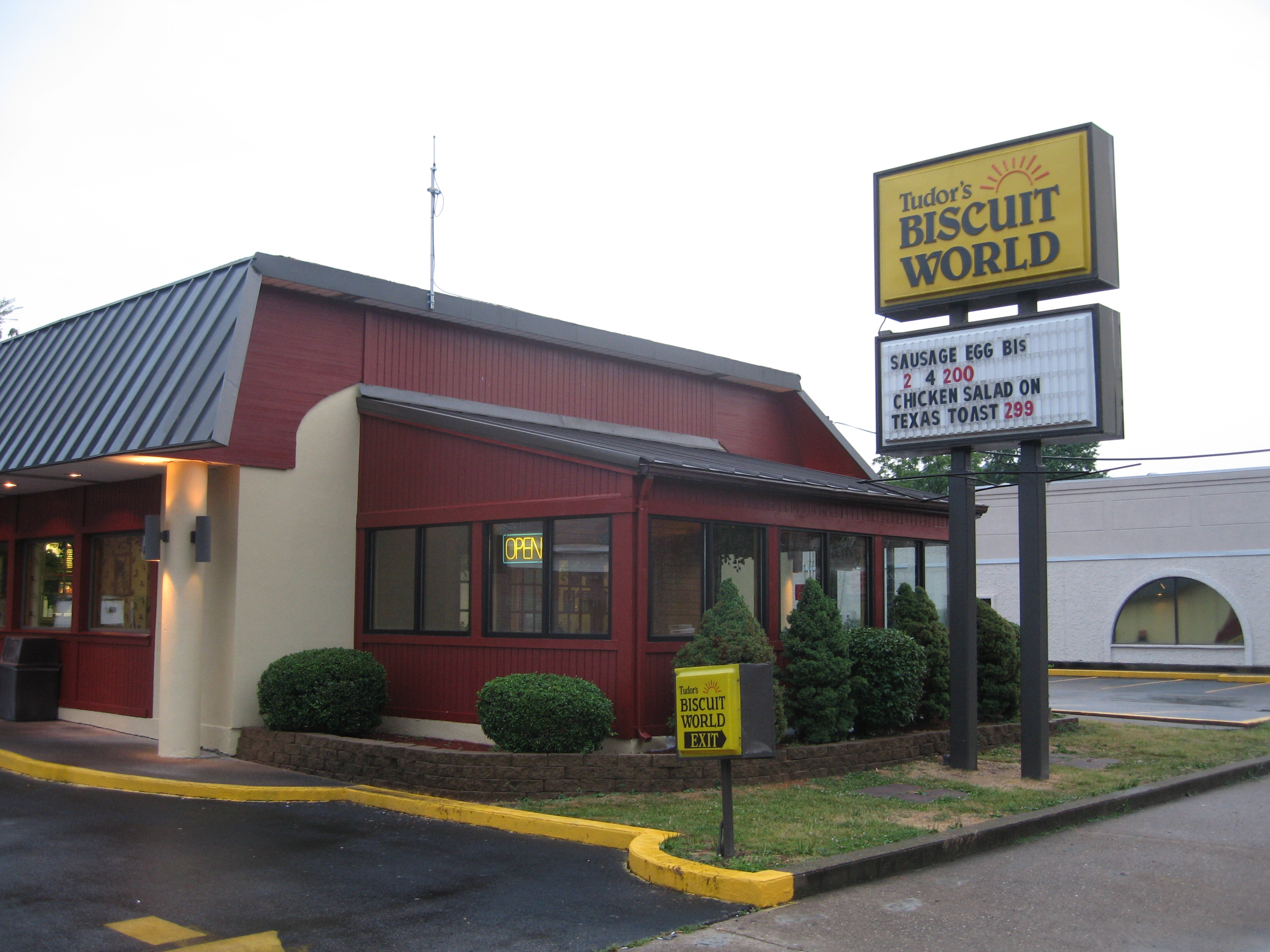 Tudor's Biscuit World, 617 Lee St E, Charleston, WV(a former Arby's?)